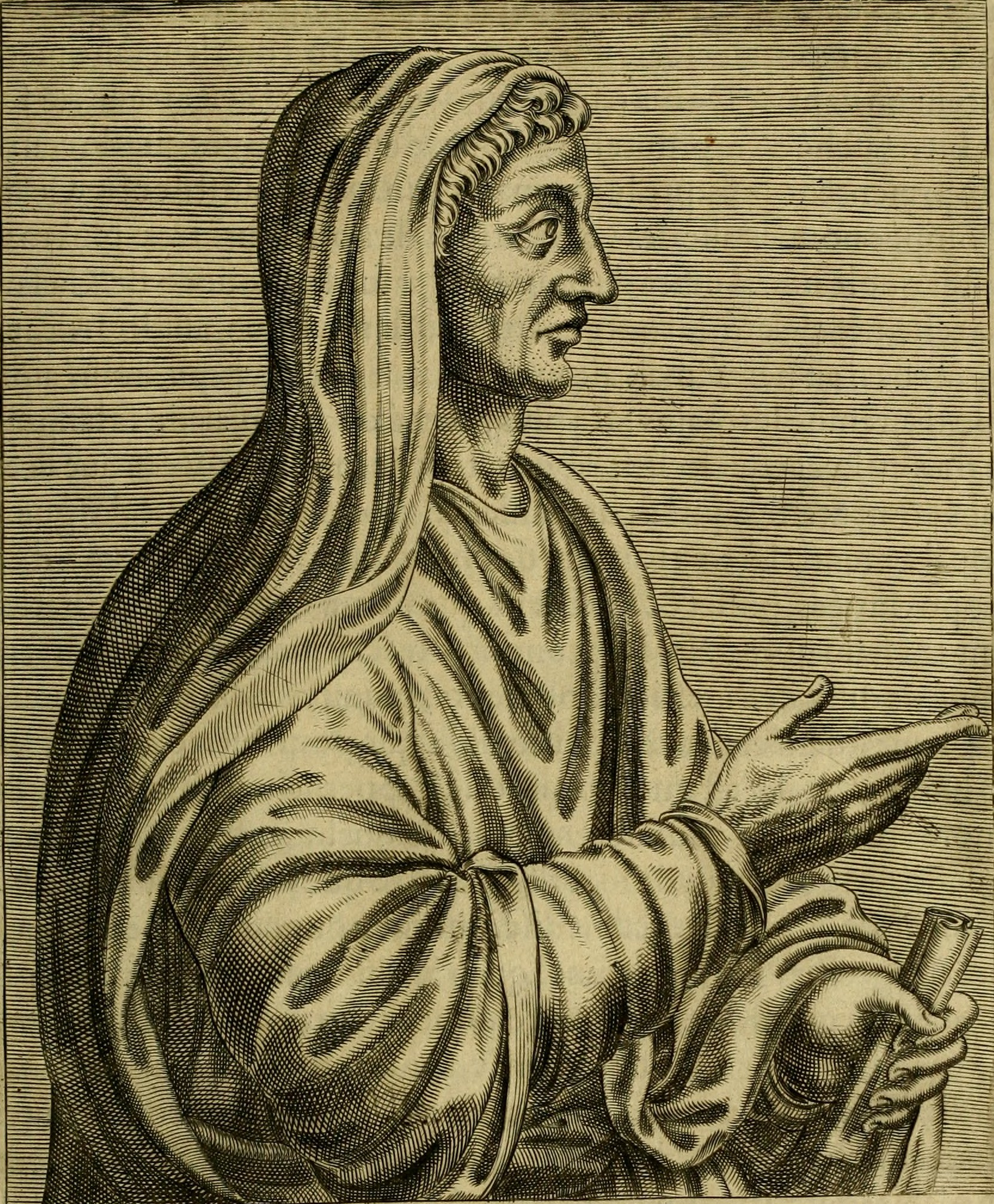 Cicero, from tome 3, folio 603 recto of Les vrais pourtraits et vies des hommes illustres grecz, latins et payens (1584) by André Thevet.